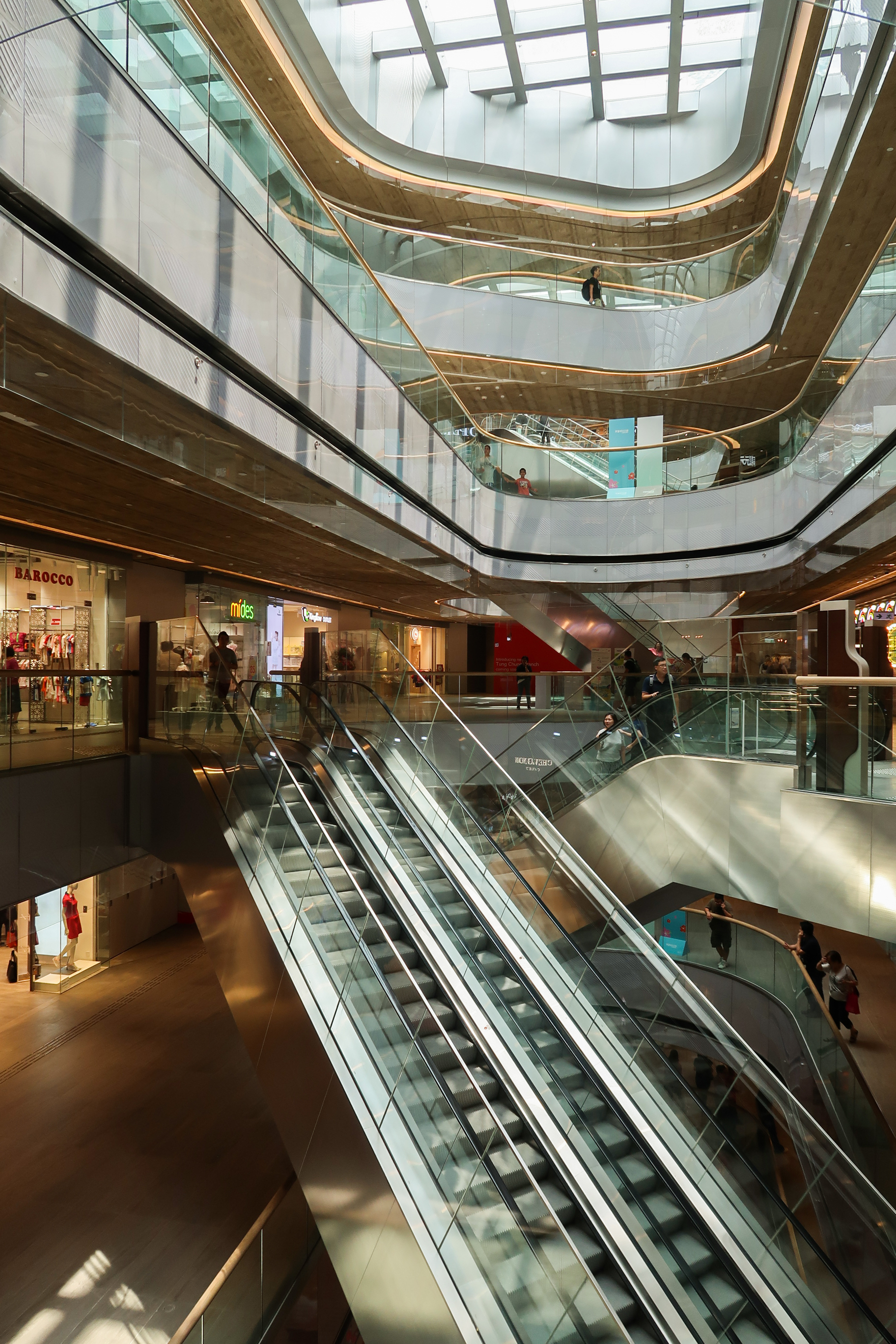 Citygate Outlet Expansion Atrium